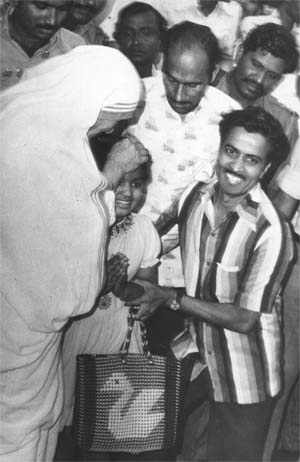 Sangeeta Katti being blessed by Mother Teresa